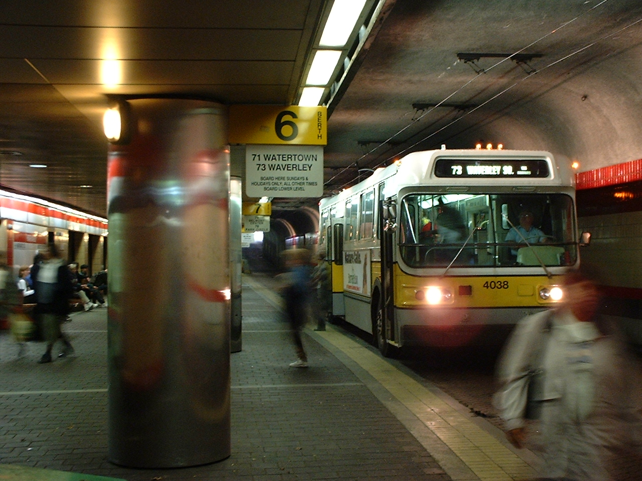 A Flyer E800 trackless trolley discharging passengers in the bus tunnel at Harvard Square MBTA station.